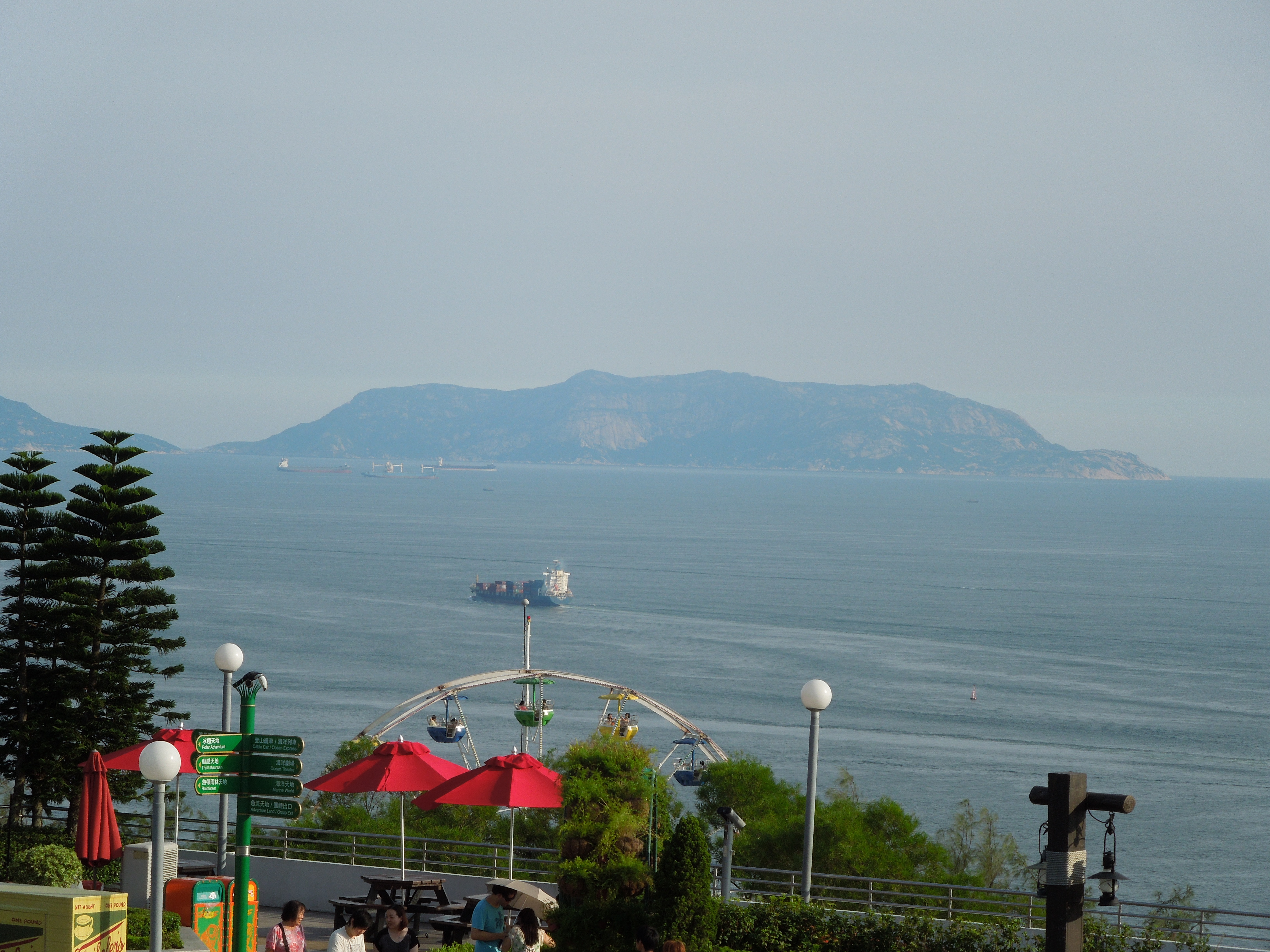 Erzhou Dao of Wanshan Archipelago, seen from Ocean Park, Hong Kong. A smal part of Dangan Dao is visible on the left.